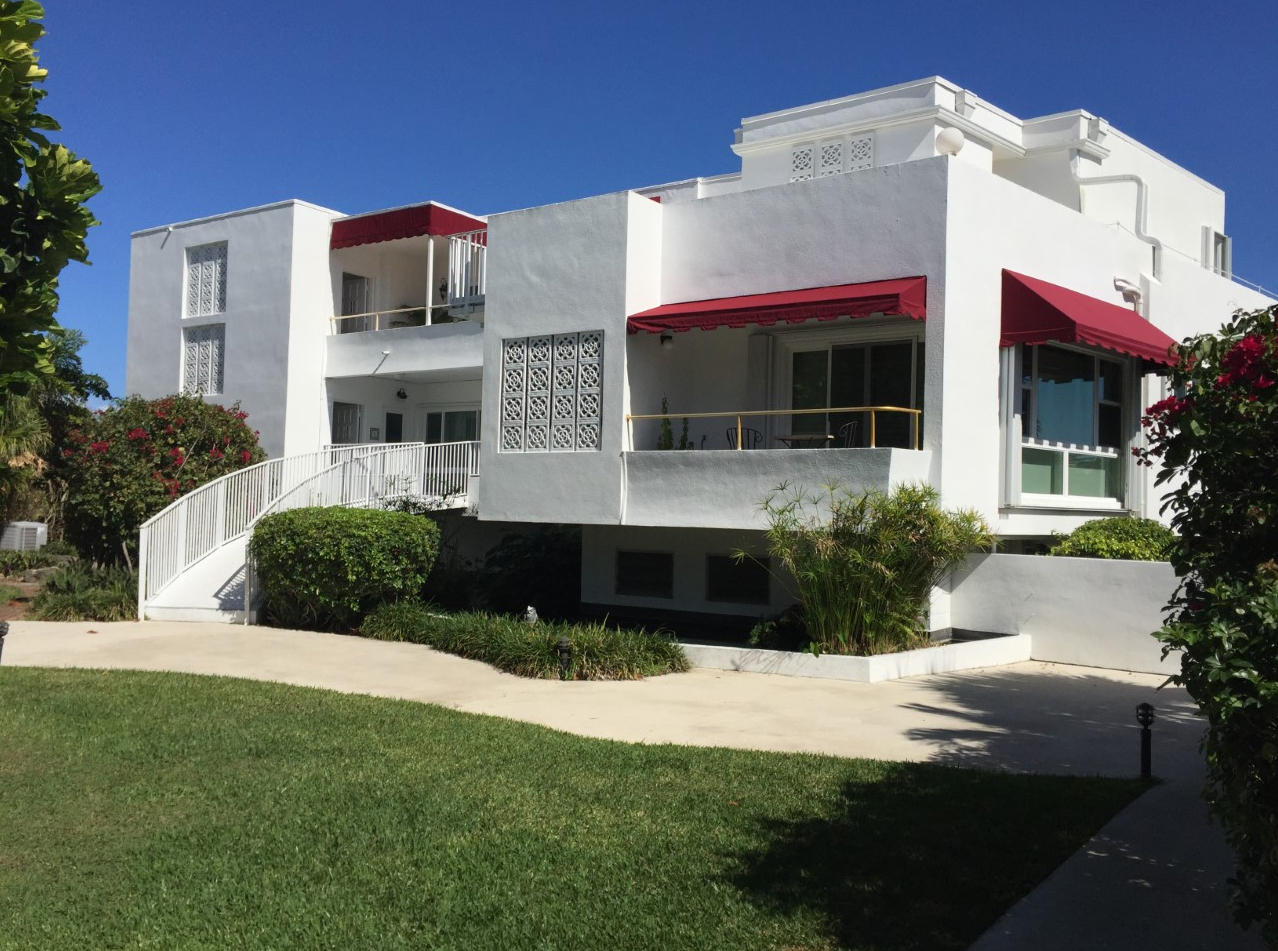 Palm Trail Yacht Club in Delray Beach, Florida, designed by Mid-century Modernist designer Alfons Bach.